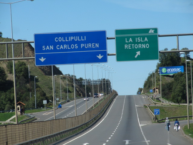 Placa indicando acesso à comuna chilena de Collipulli, San Carlos Puren e La Isla.